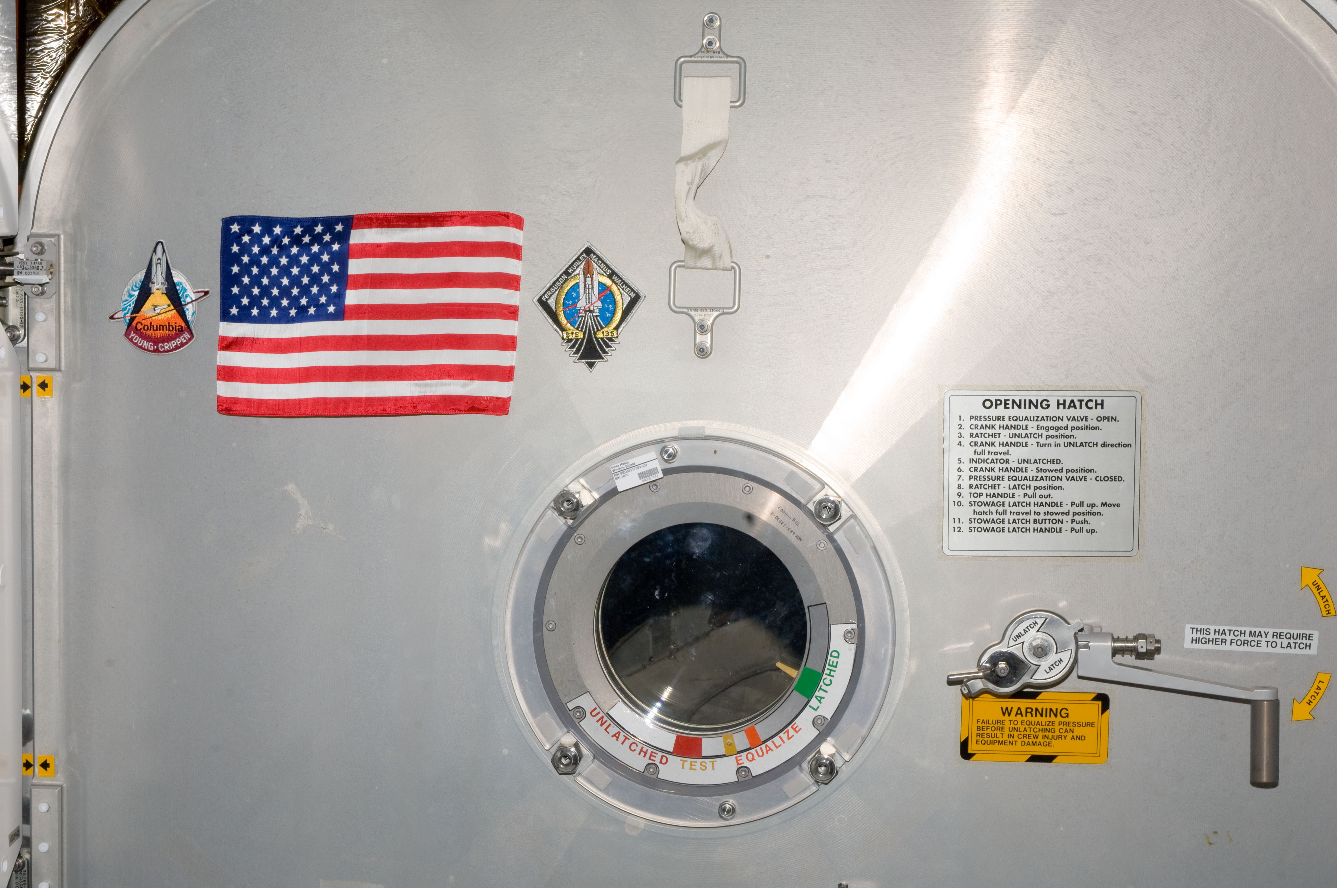 Inside the International Space Station's Node 2 or Harmony, the STS-135 crew presented the Expedition 28 crew this special U.S. flag and mounted it on the hatch leading to Atlantis. The flag was flown on the first space shuttle mission, STS-1, and flew on this mission to be presented to the space station crew. It will remain onboard until the next crew launched from the U.S. will retrieve it for return to Earth. It will fly from Earth again, with the crew that launches from the U.S. on a journey of exploration beyond Earth orbit.